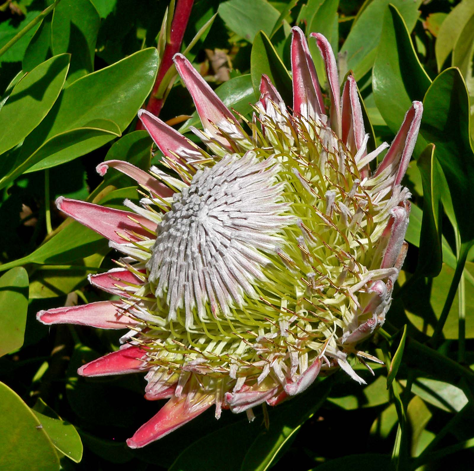 Photo of Protea cynaroides at the San Francisco Botanical Garden